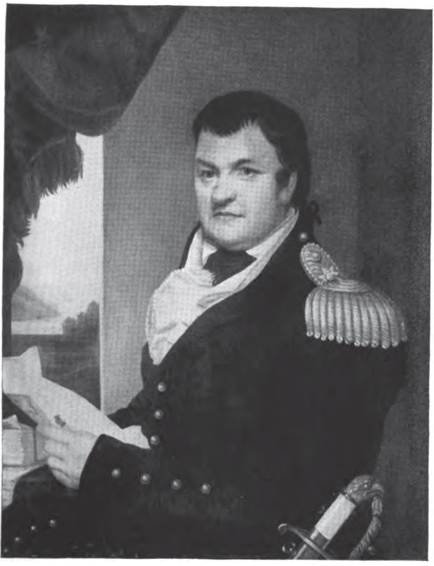 A governor of Ohio named Duncan McArthur